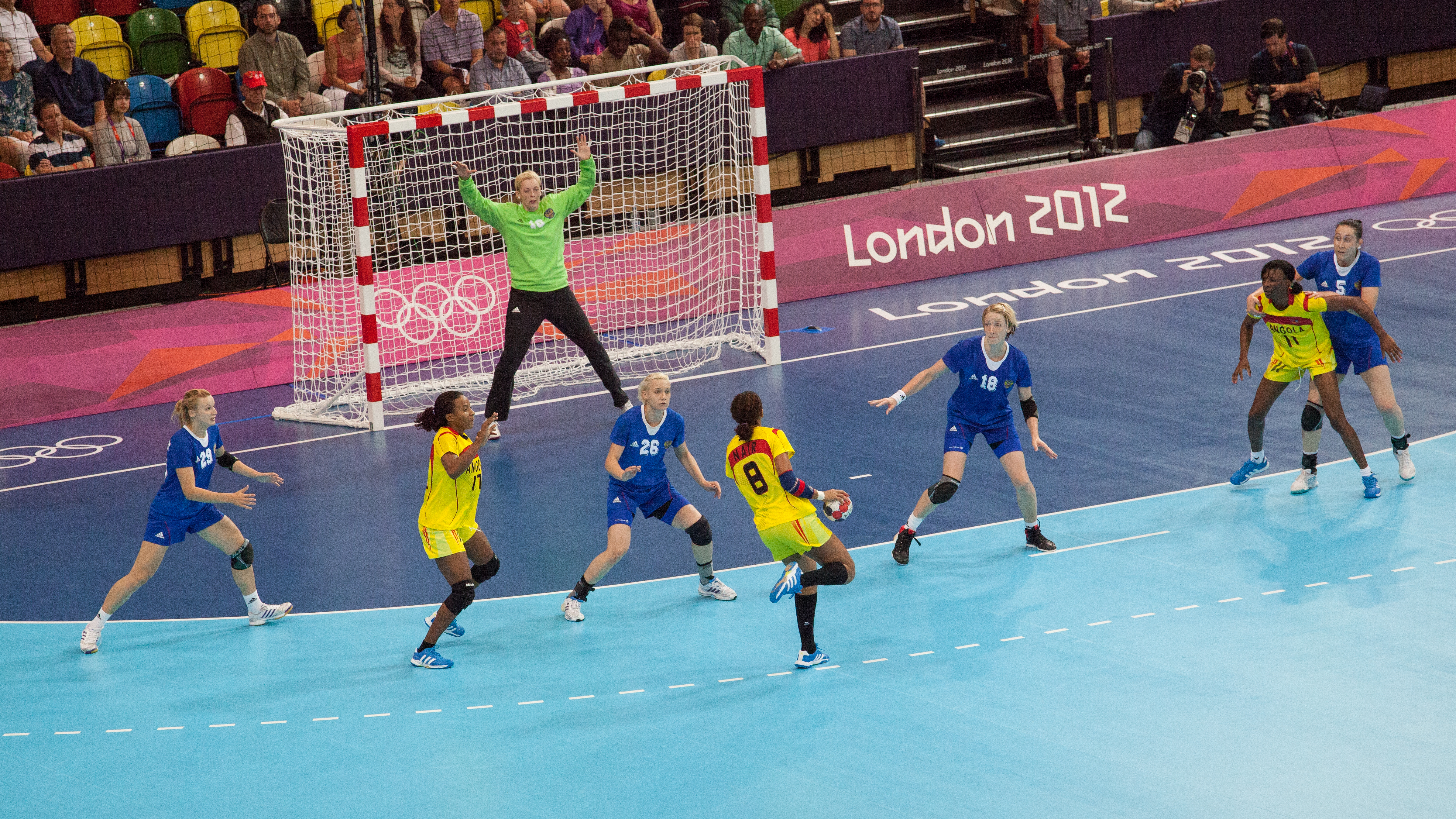 Russia vs Angola at 2012 Summer Olympics